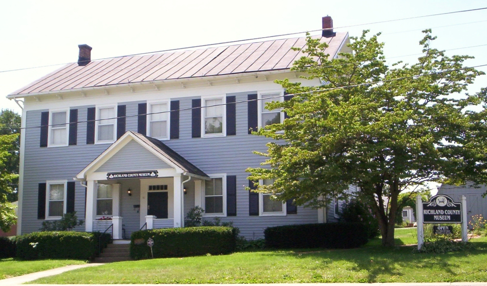 National Register of Historic Places old Lexington School, now the Richland County Museum at 51 West Church Street in Lexington, Ohio has been on the NRHP since February 23, 1979.